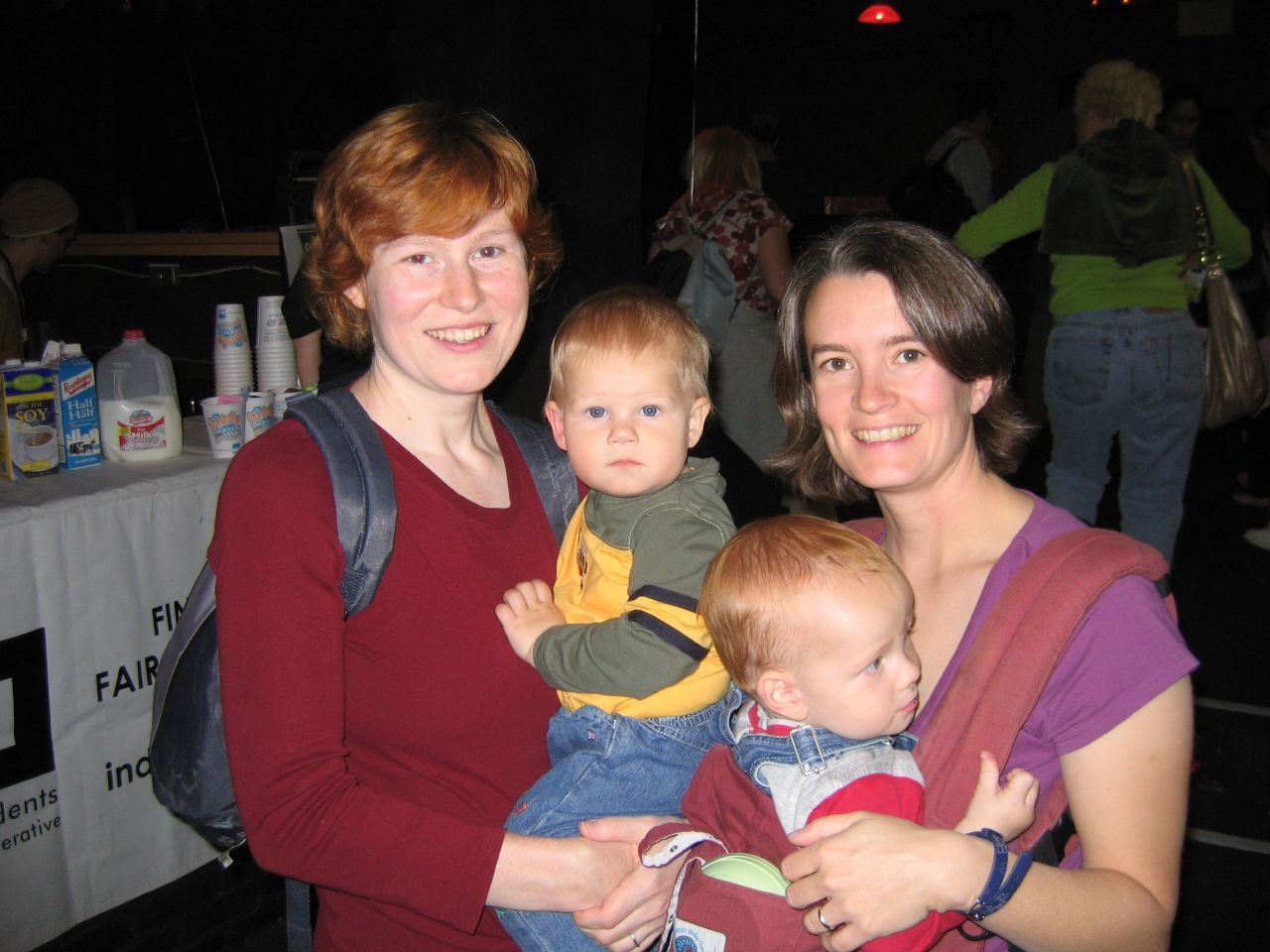 At the Baby Loves Disco party Sunday afternoon. as an evidence